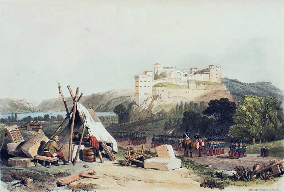 Fort Constantine and Fort Alexander in Koblenz